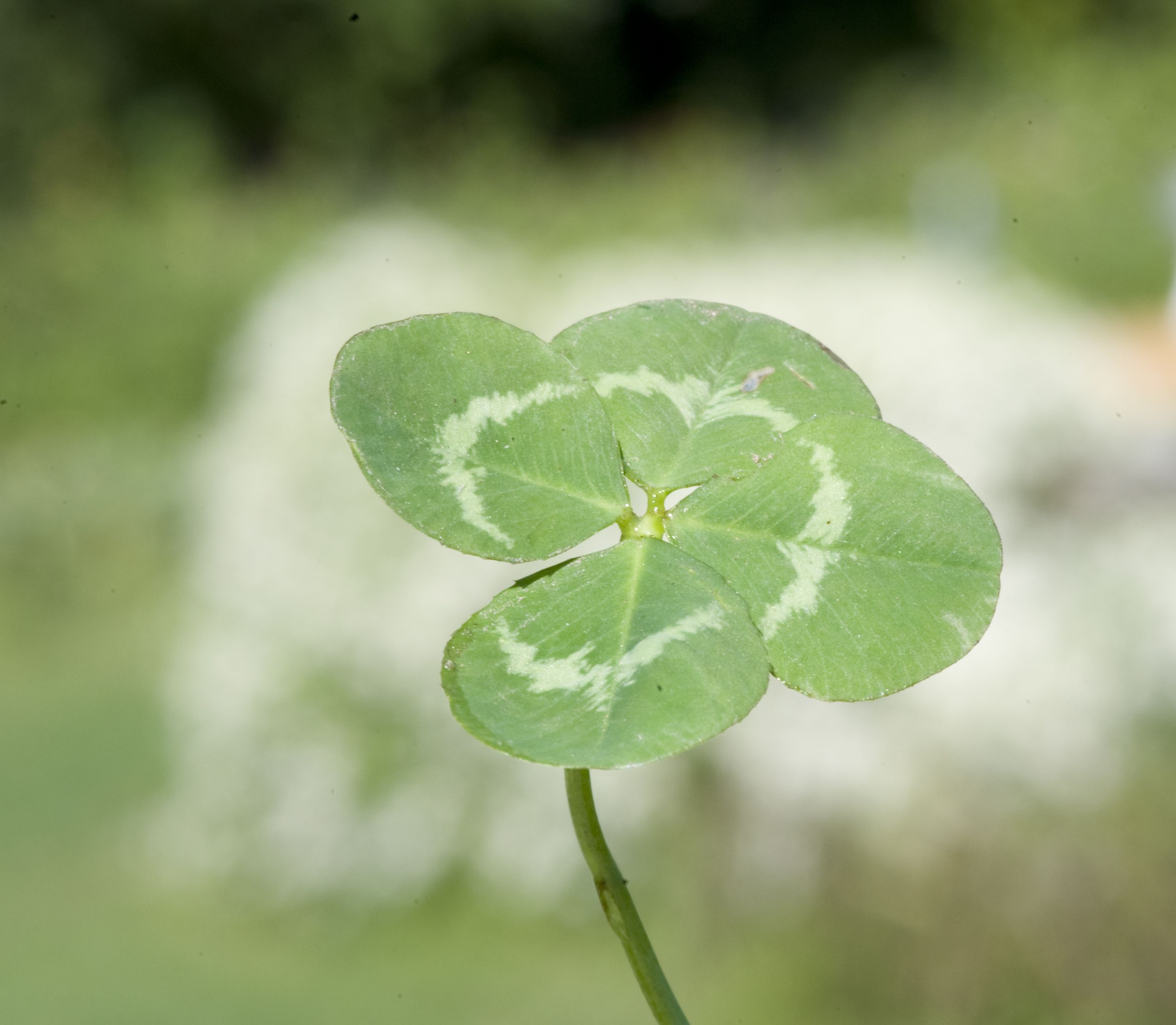 But maybe that dates me............ [Clematis "Sweet Autumn" in the background]